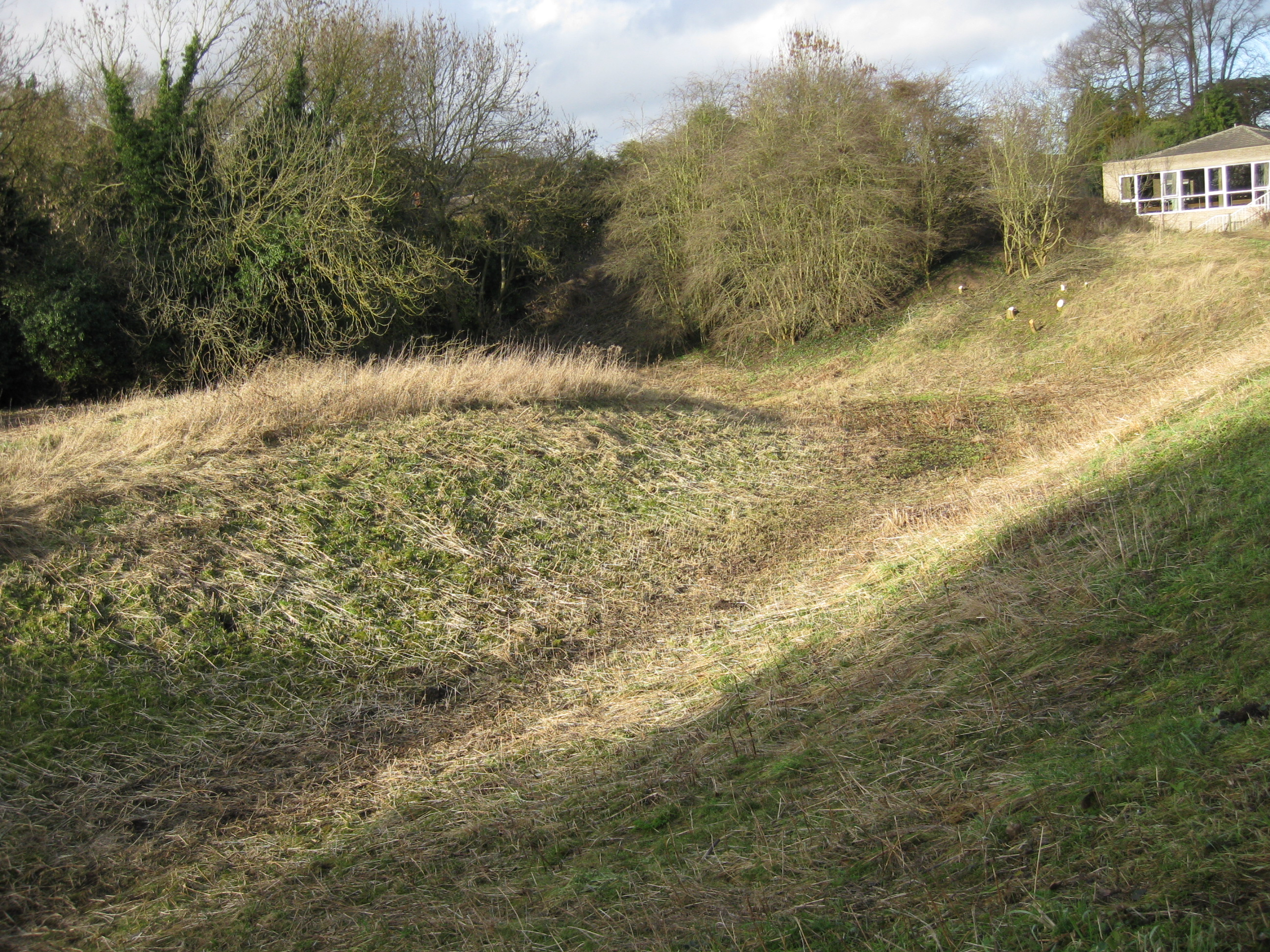 The Hollow (also known as Piggy's Hollow), Evington, Leicester. Remains of moat of 14th century manor house. Scheduled Monument SM17026.